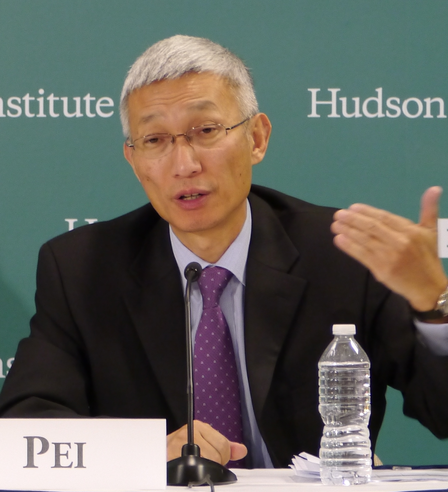 On November 21st, 2014, Hudson Kleptocracy Initiative (KI) hosted a discussion moderated by KI Executive Director Charles Davidson with Claremont McKenna College Professor Minxin Pei on the sources and implications of China’s kleptocracy